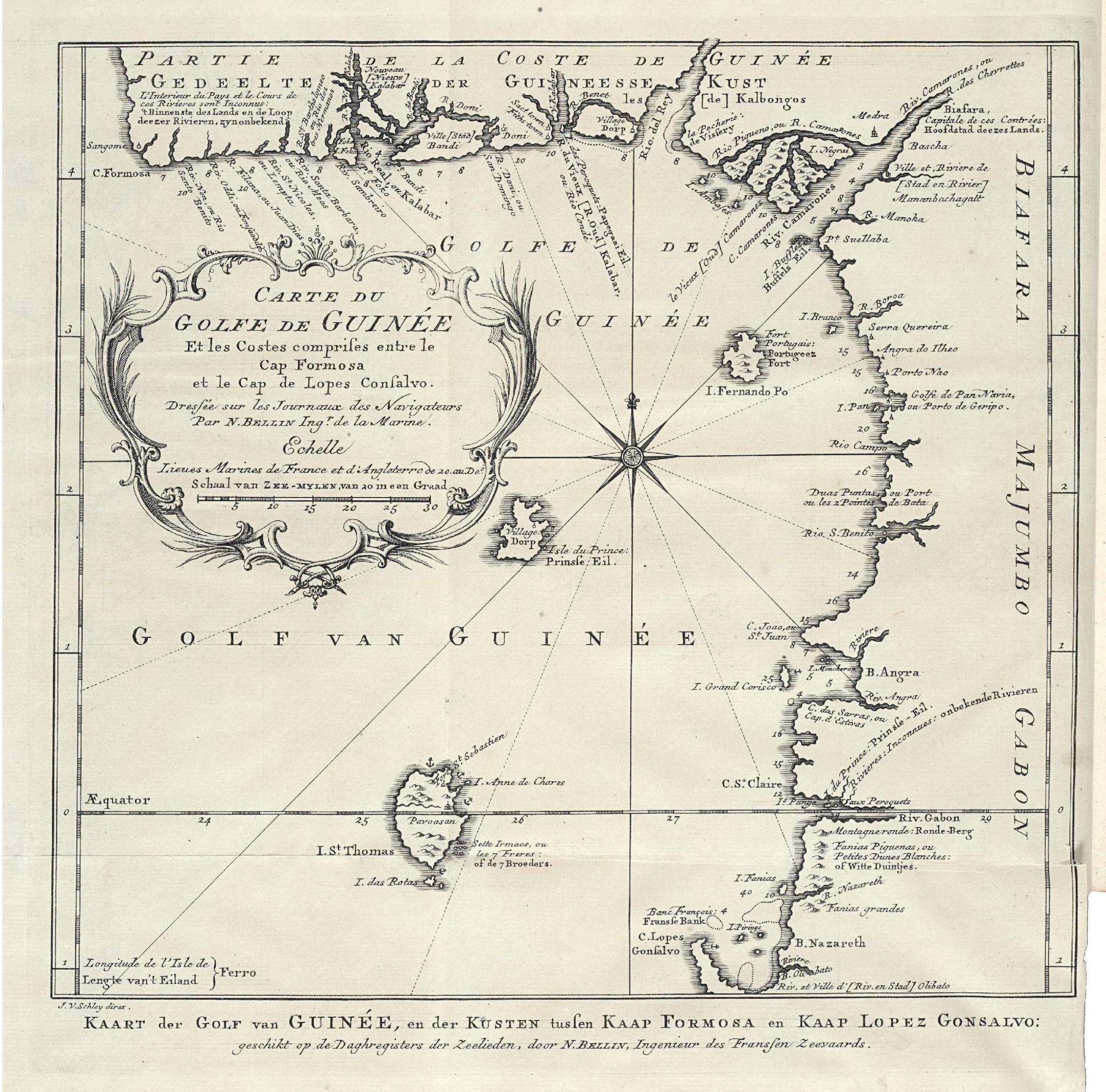 Map of part of the West African coast, between Cape Formosa and Cape Lopez Gonsalvo. Kaart der Golf van Guinée, en der Kusten tussen Kaap Formosa en Kaap Lopez Gonsalvo. Carte du Golfe de Guinée et les Costes comprises entre le Cap Formosa et le Cap de Lopes Consalvo. Dressée sur les Journaux des Navigateurs Par N. Bellin Ing:r de la Marine.